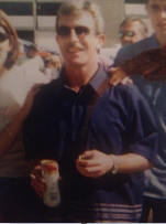 Former Port Vale striker Alan Woolfall on a family holiday to Ibiza in 2002